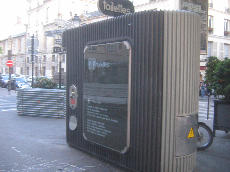 pay toilet, Paris. c 2005 joseph barillari